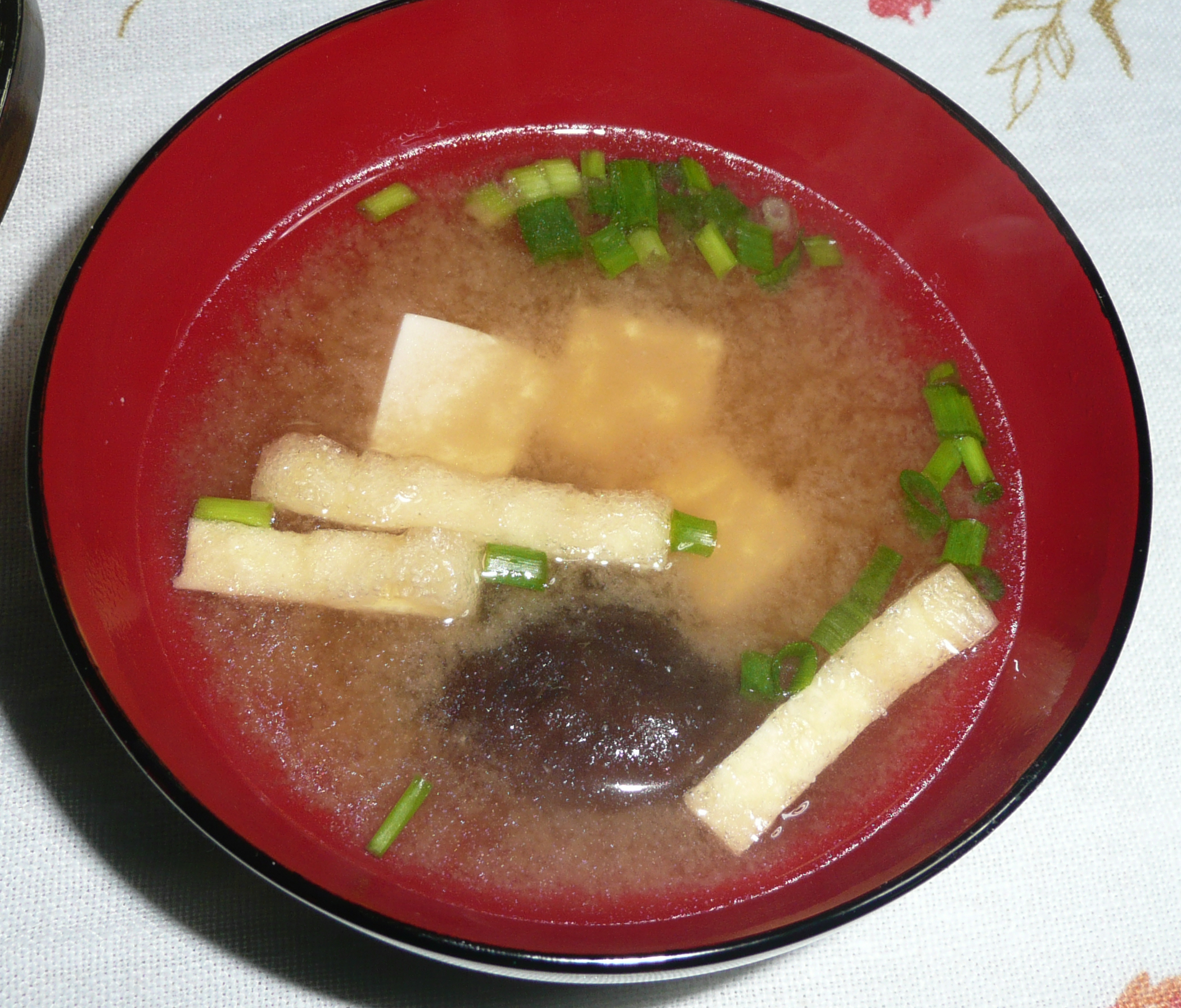 Japanese Miso Soup in Hamamatsu, Japan